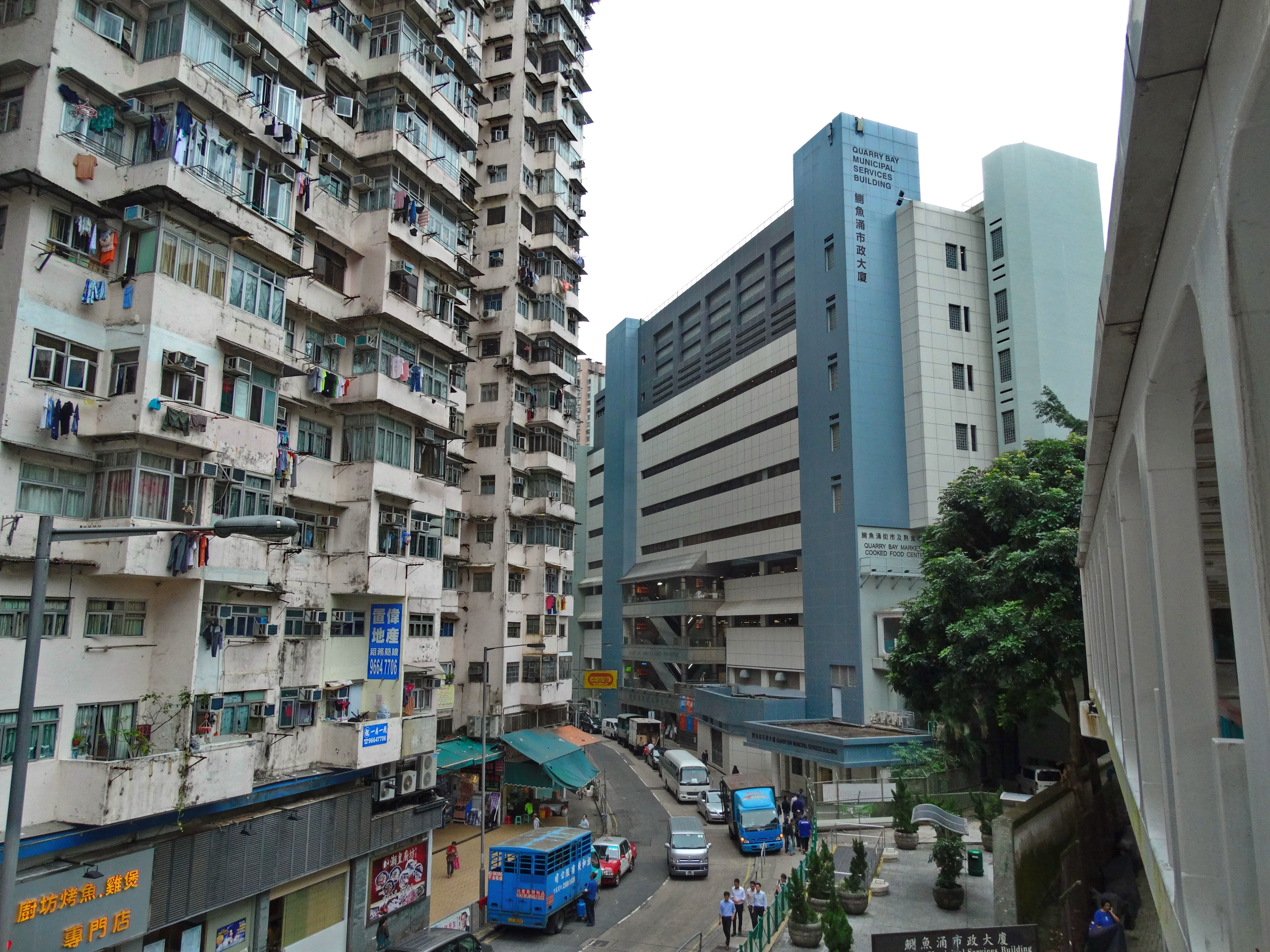 Quarry Bay Municipal Services Building, Hong Kong.